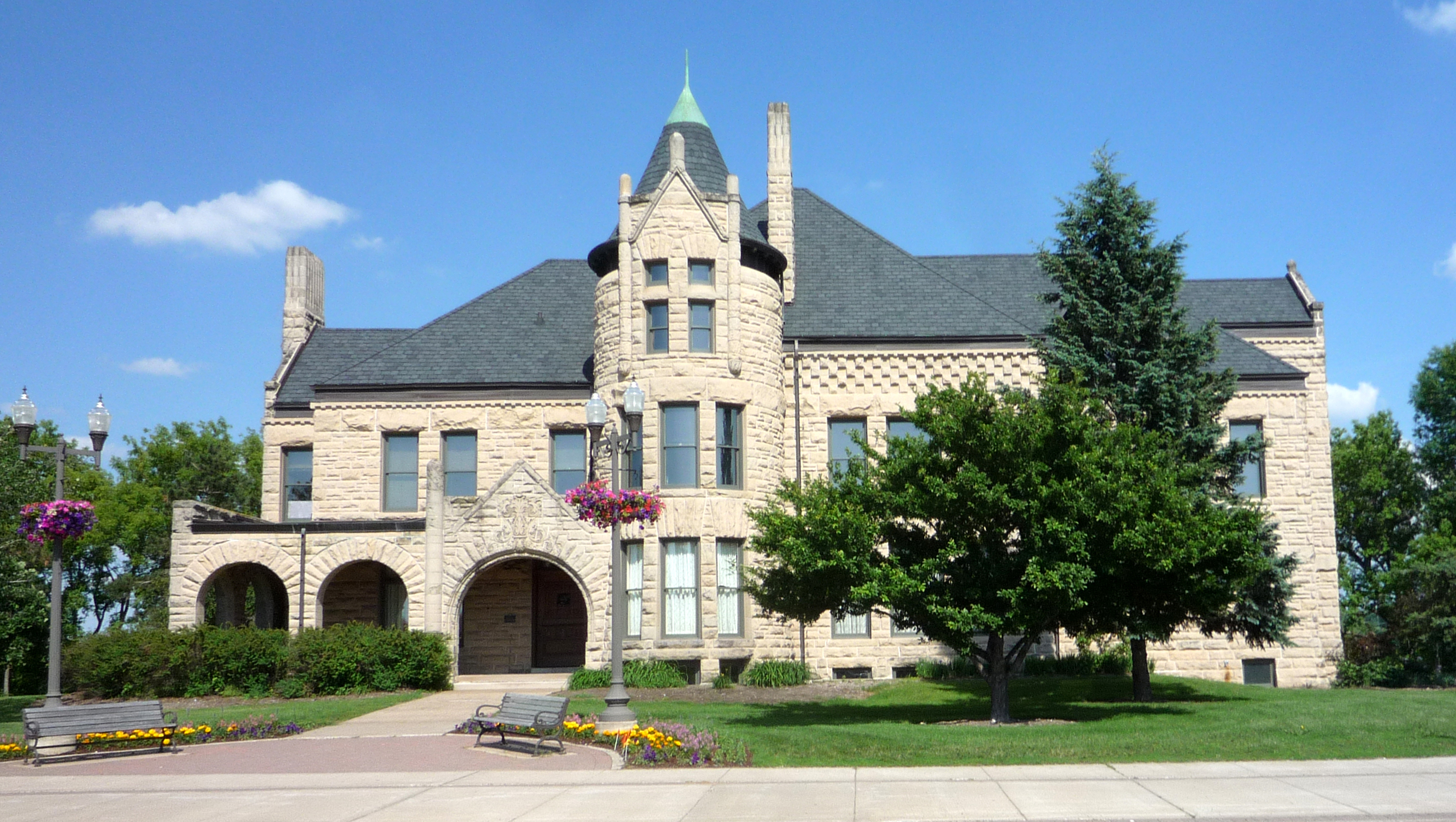 Louis Smith Tainter House, Menomonie, Wisconsin, USA. Originally built as a private home, it now serves the University of Wisconsin-Stout as the Stout University Foundation and the Stout Alumni Association.